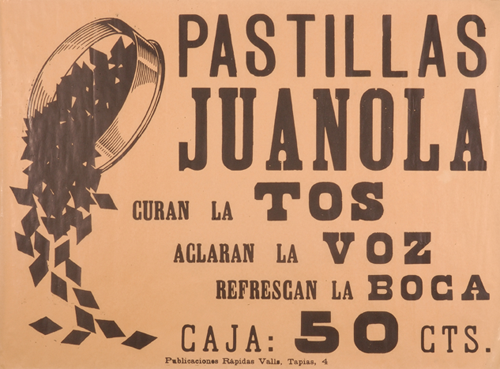 Juanola